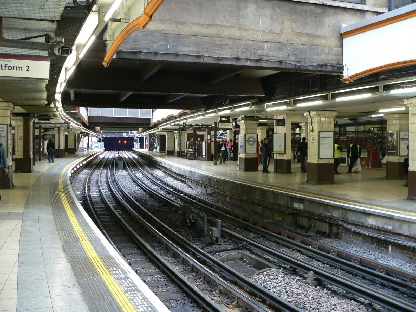 Metropolitan Line platforms 2 and 3 at Baker Street station on the London Underground. This photograph was taken looking northbound from the City end of the station on 24 October 2005